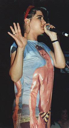 photo by Denis Gray Kathleen Hanna with Bikini Kill - 17 January, 1996 - Annandale Hotel, Sydney Australia